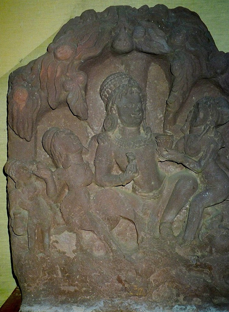 ~ Best Kamadeva ~ ~ in his cups ~ w two consorts, 2 female attendants 8th ~ 9th century Vidisha Museum, MP